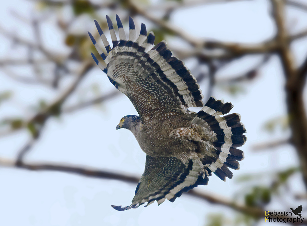 Captured at Kaziranga National Park, India